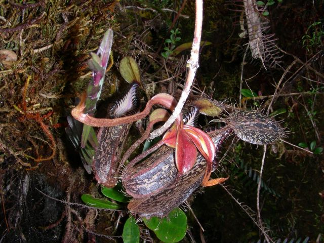 Nepenthes hamata, Sulawesi